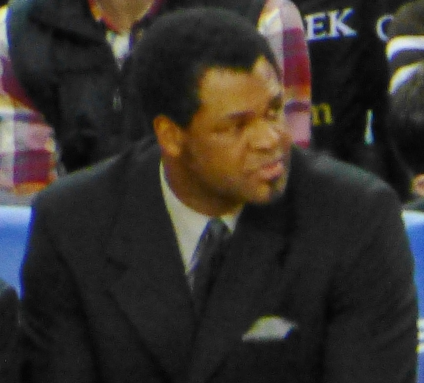 L-R: Player Draymond Green, assistant coach Darren Erman, assistant coach Pete Myers, head coach Mark Jackson, and assistant coach Jerry DeGregorio of the Golden State Warriors